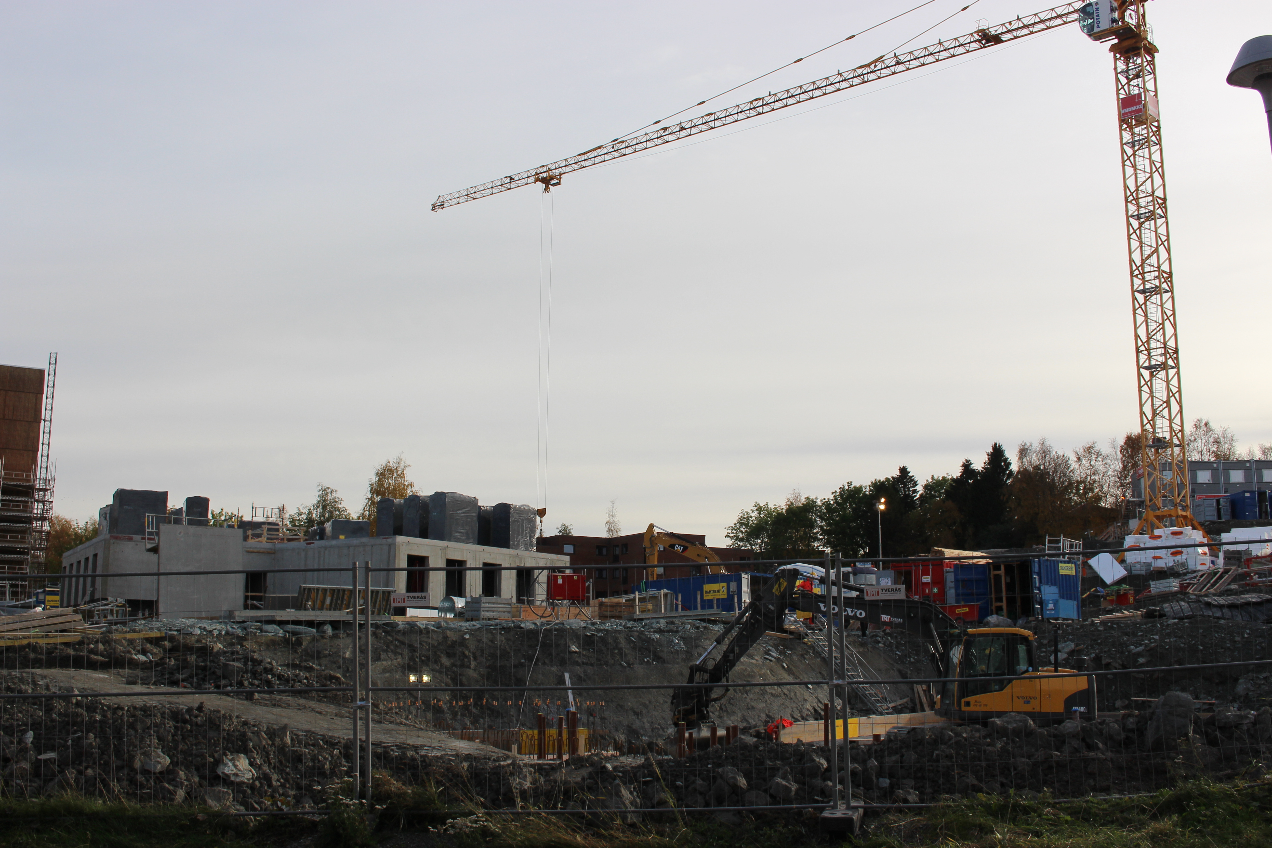 Construction site of Moholt Studentby, Trondheim, Norway, in 2015.